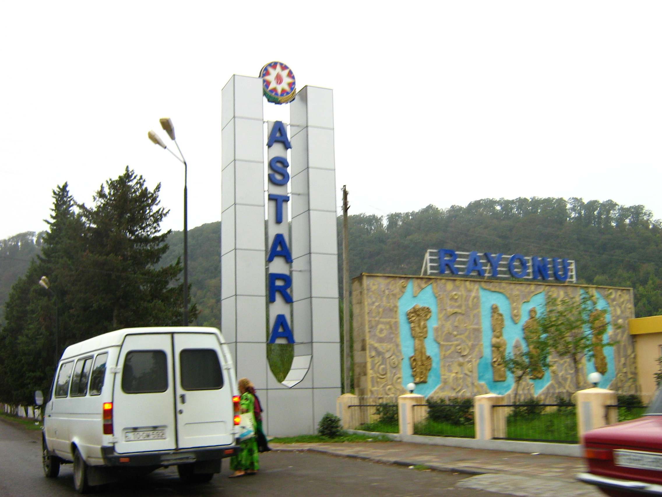 Road sign at the entrance to Astara rayon, Azerbaijan